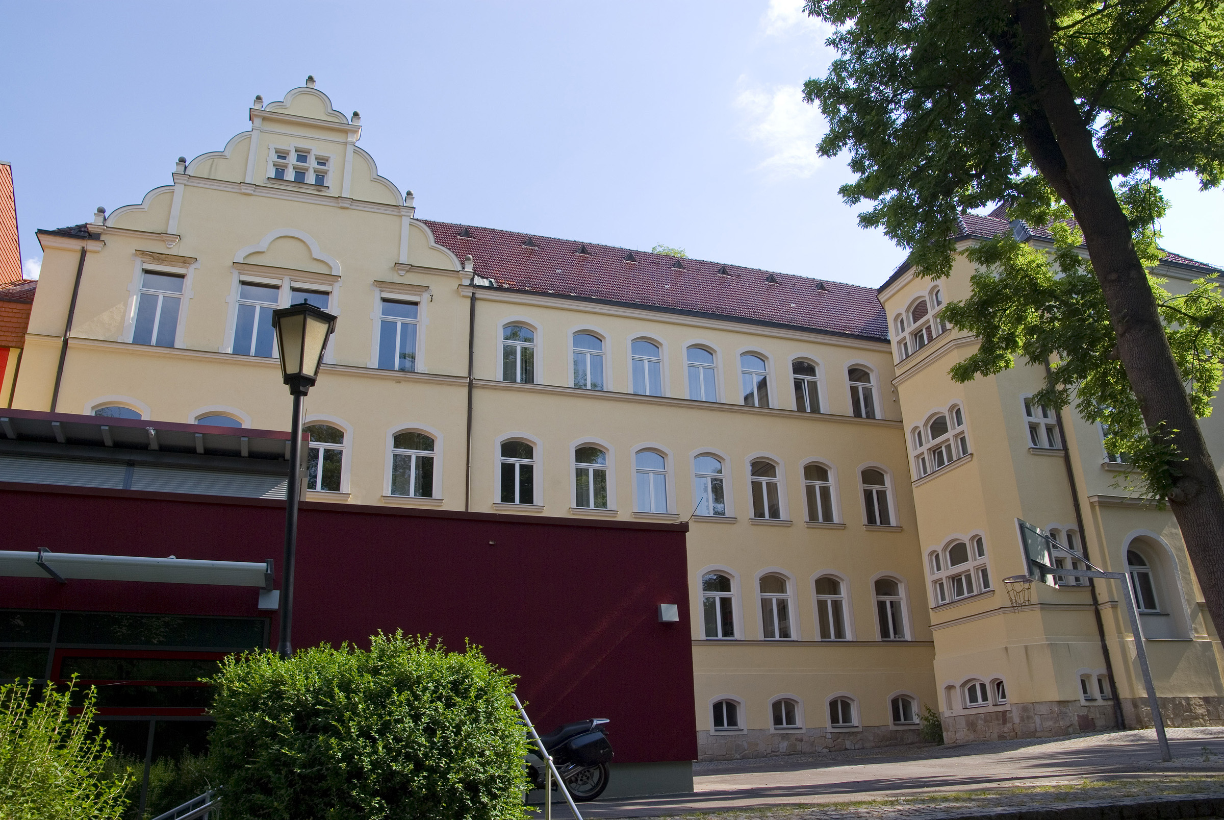 grammar school "Albertinum" in Coburg, Bavaria